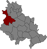 Location of Sant Hilari Sacalm in Selva